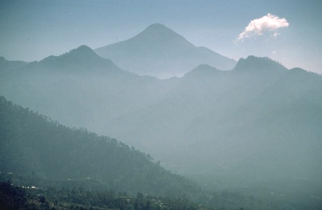 Tajumulco, the highest volcano in Central America, is seen here from the NW from the slopes of Tacaná volcano, which lies along the México/Guatemala border.